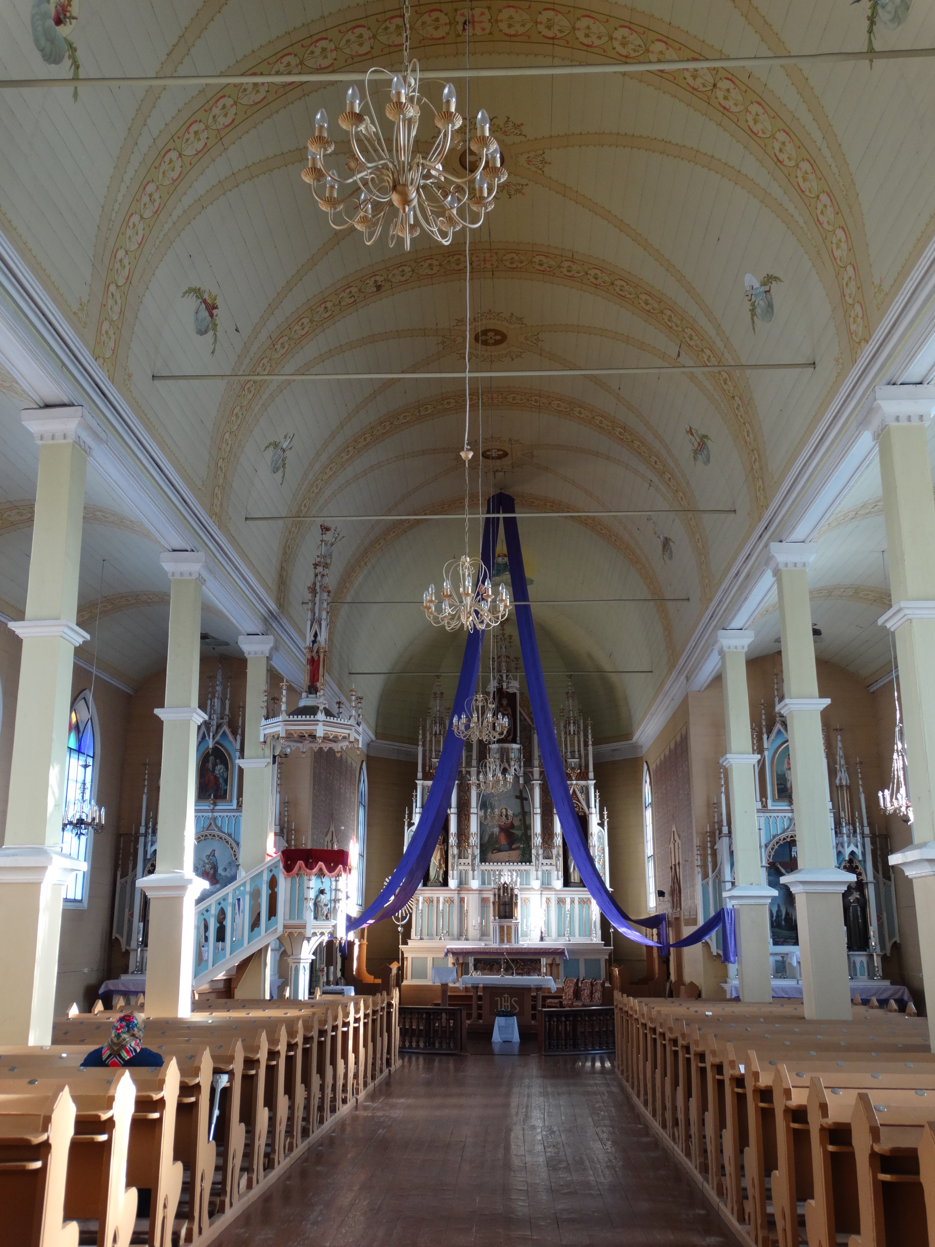 Church of St. George, Eržvilkas, Jurbarkas, Lithuania